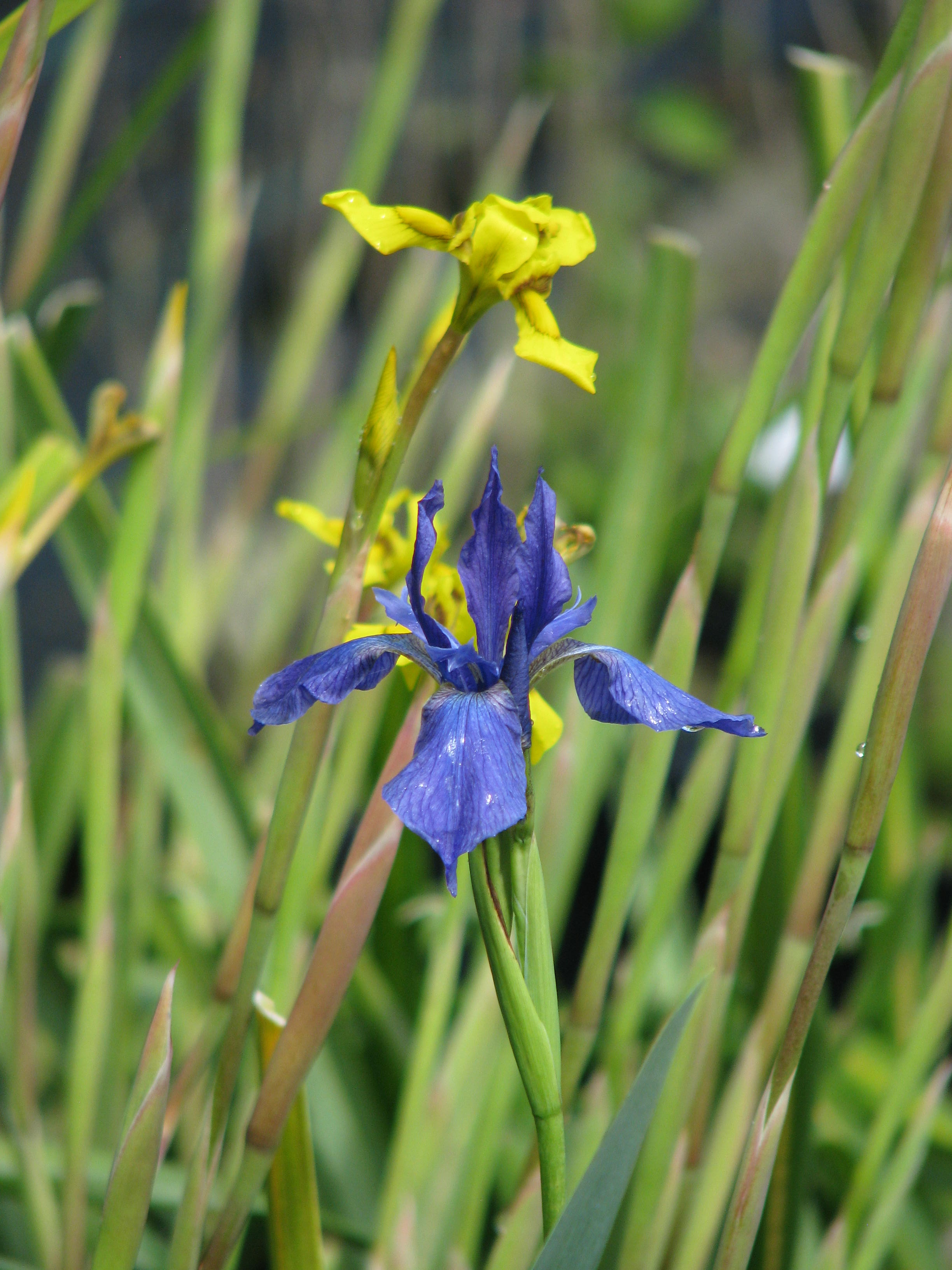 First flower on a plant raised from seed a long time ago